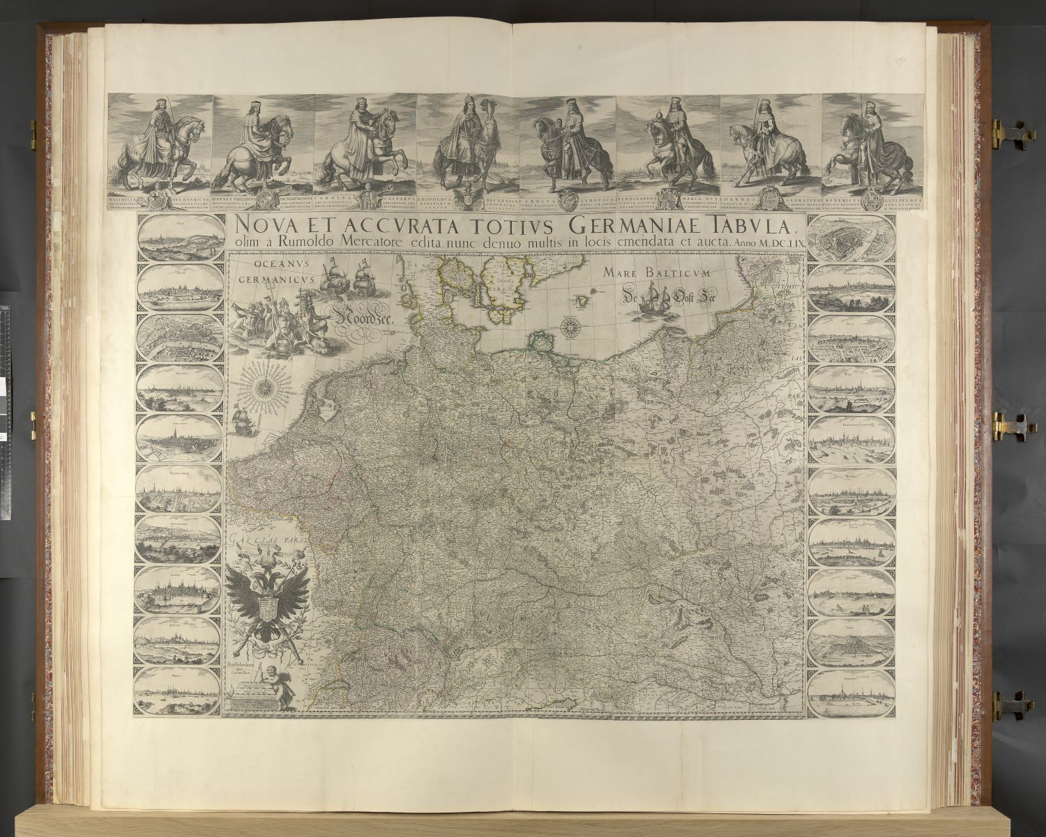 Page from Klencke's Atlas, presented to king Charles II. Collection of maps made by several map makers